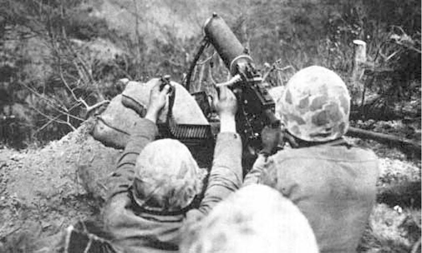 Korea, on the "Quantico" Line. Marine Machine Gun Team with Browning M1917 Awaiting an Expected Chinese Counterattack